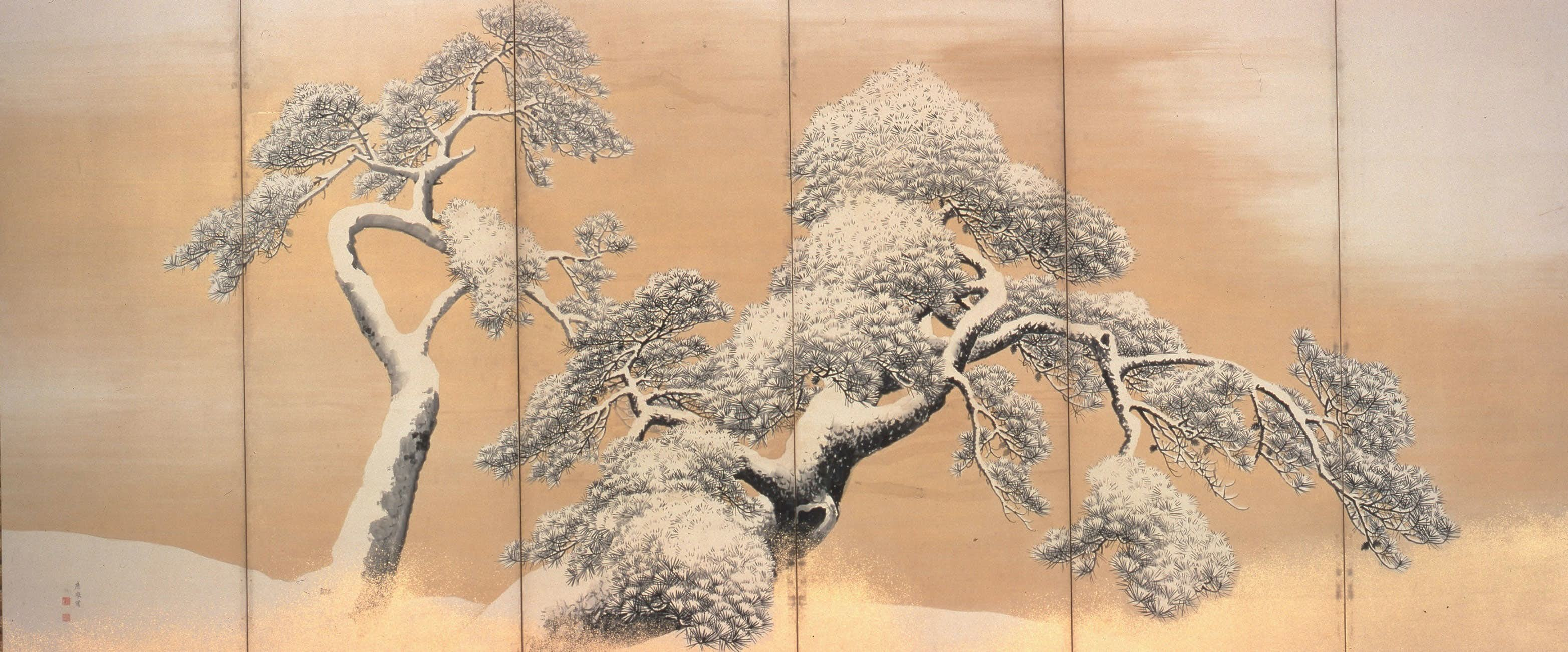 left folding screen